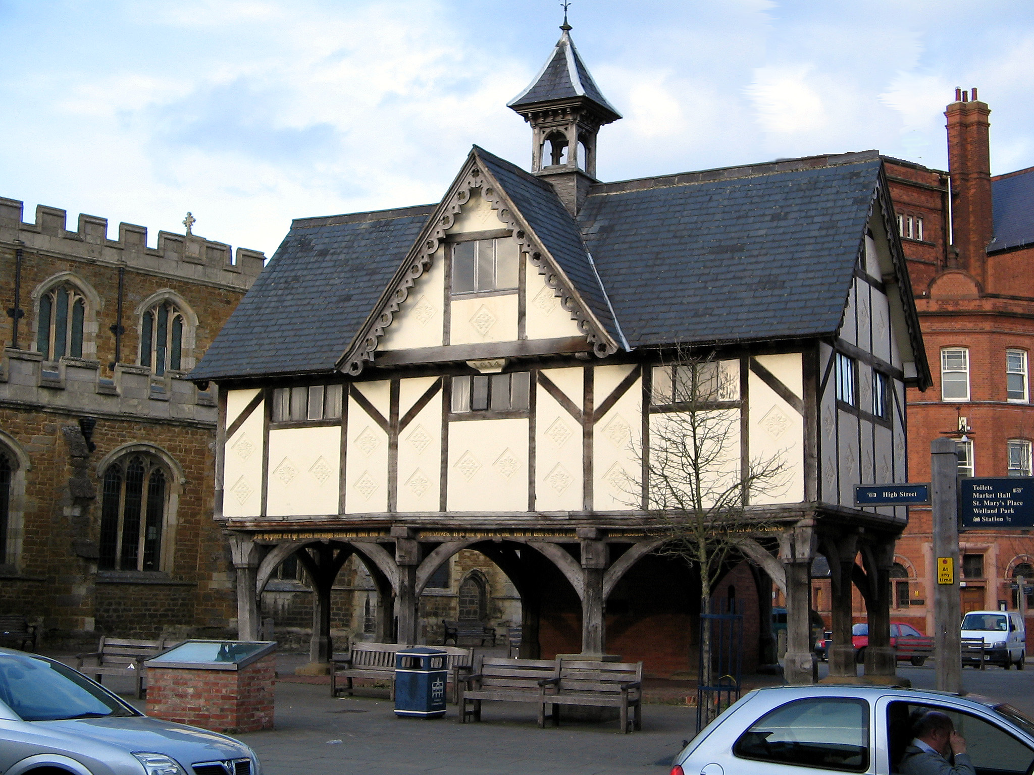 Old Grammar School, Church Square, Market Harborough, Leicestershire. The school was on the first floor; the open ground floor was a butter market. Note the pargeting between the timber framing.